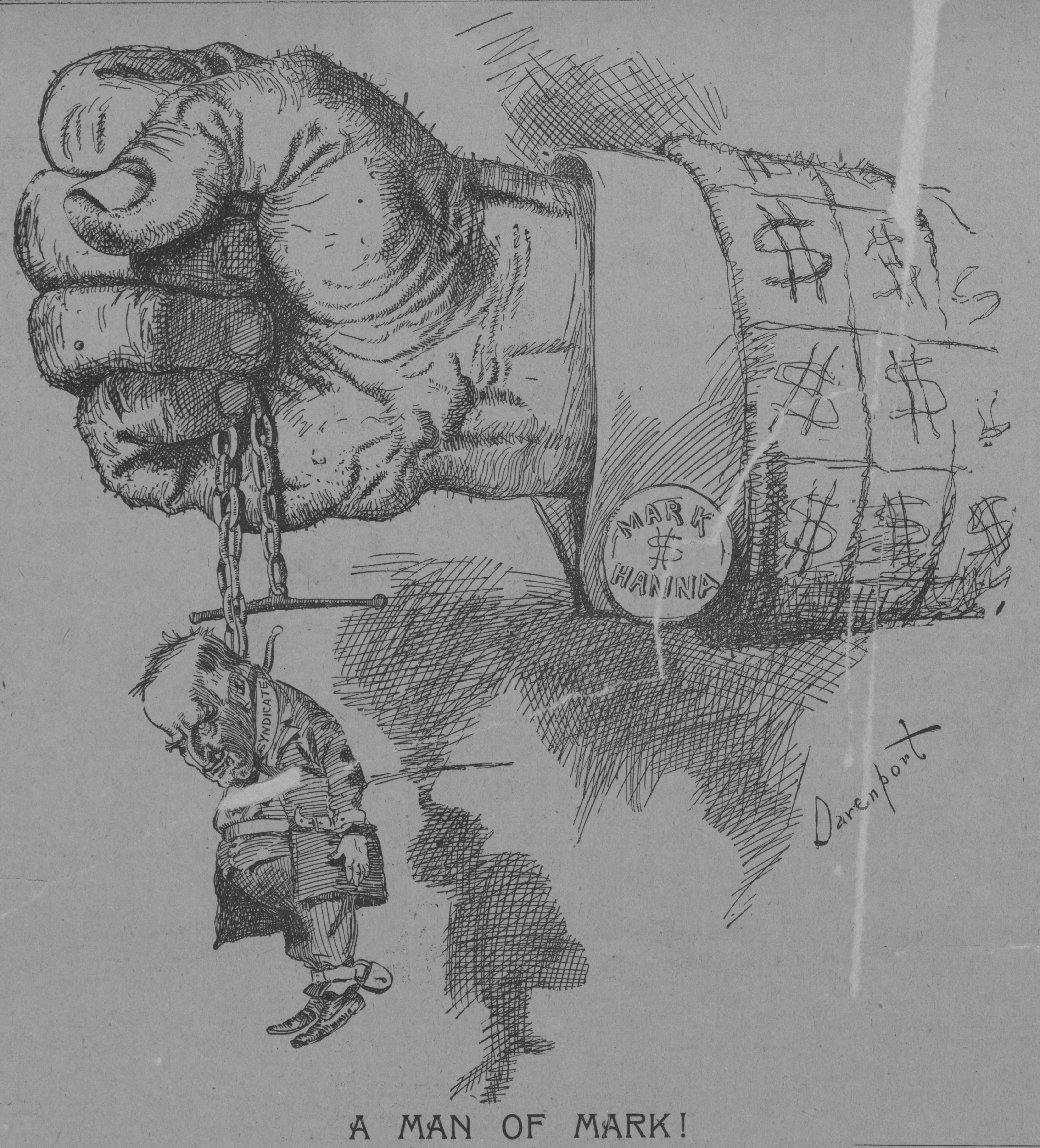 Cartoon depicting William McKinley as tool of Mark Hanna, by the New York Journals Homer Davenport. This image is reproduced from here, but it is the same as here, establishing pre-1923 publication